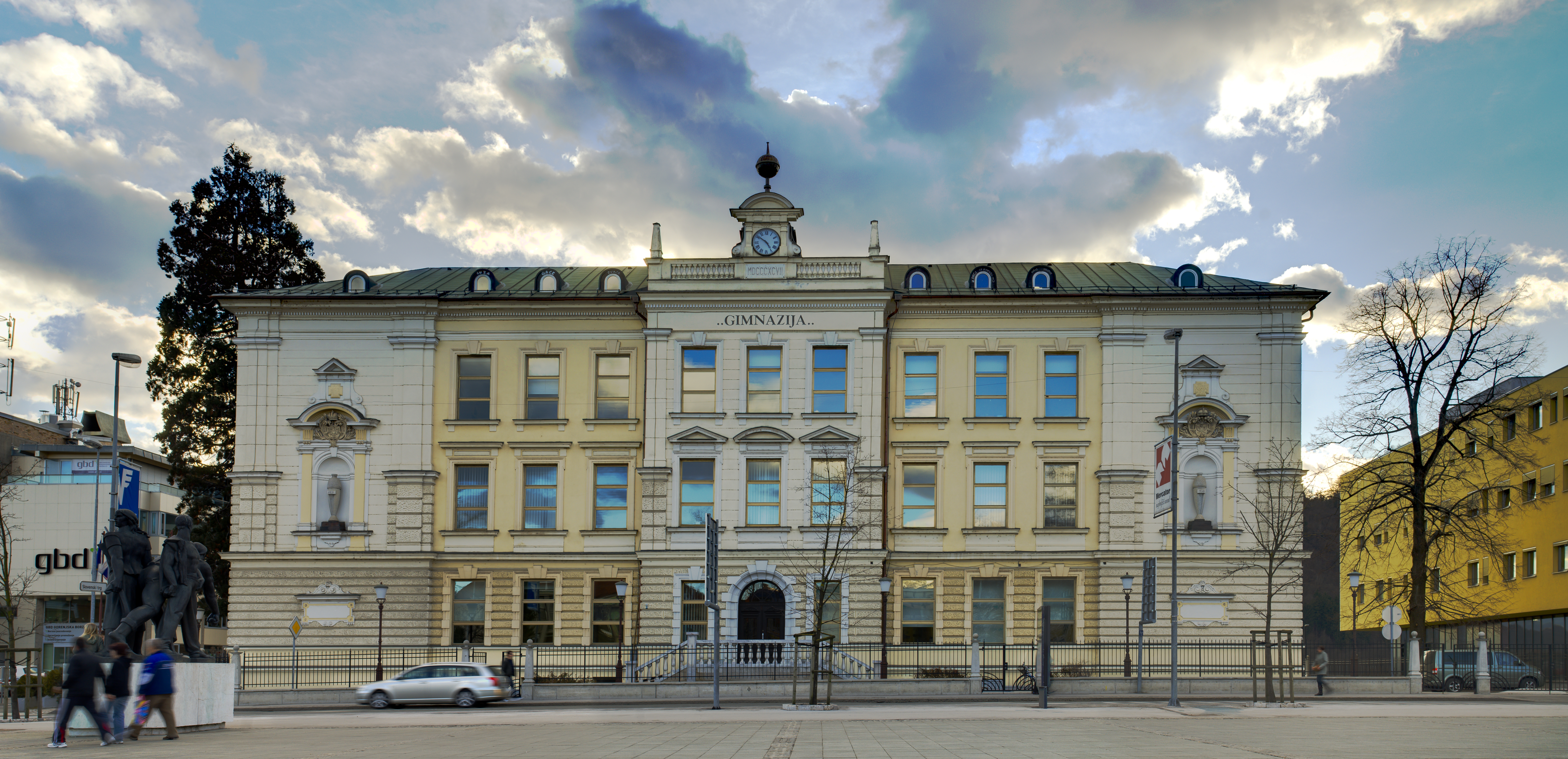 Kranj Gymnasium